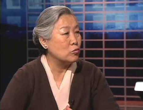 Jetsun Pema, 22 April 2009